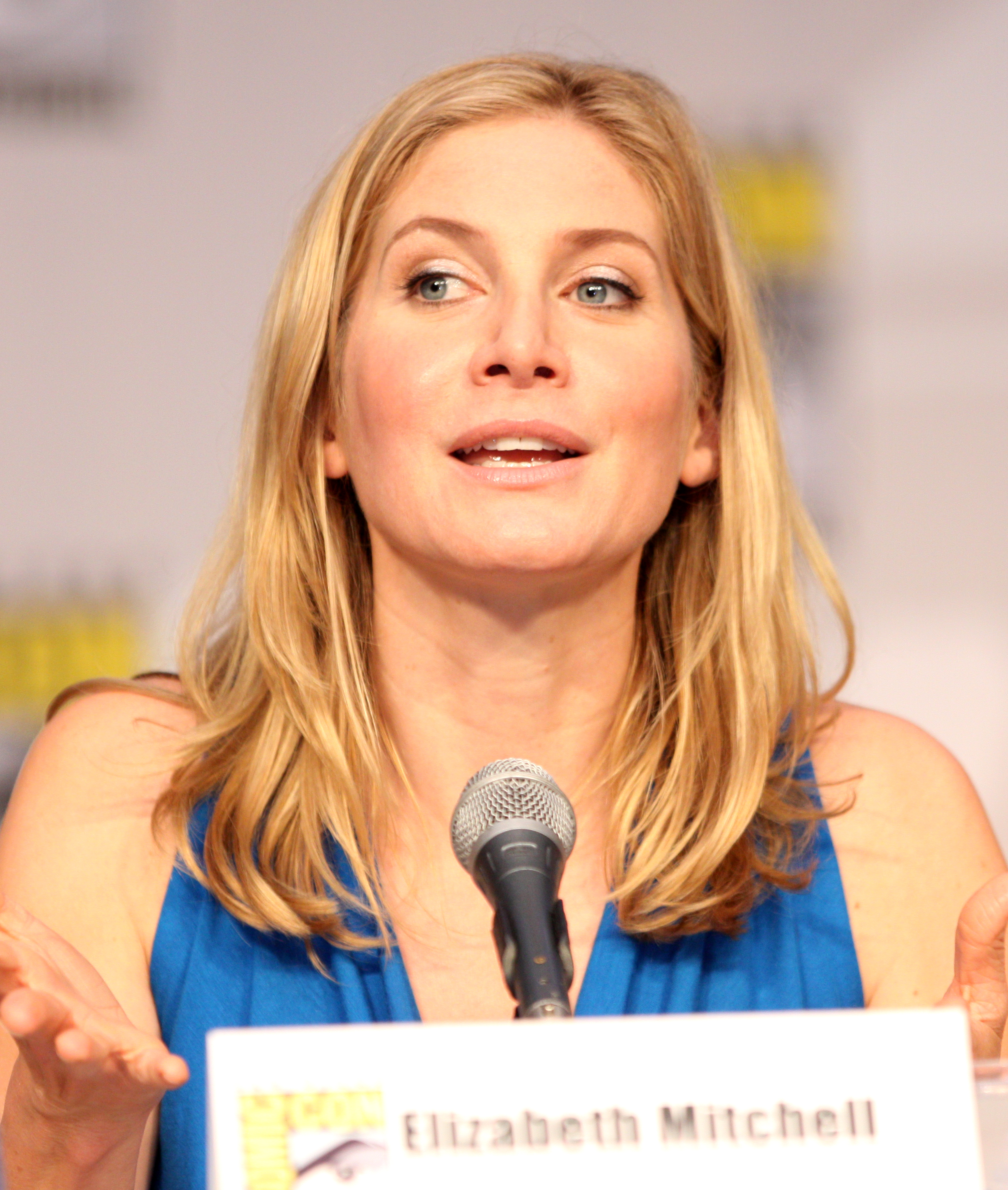 Elizabeth Mitchell at the 2010 Comic Con in San Diego